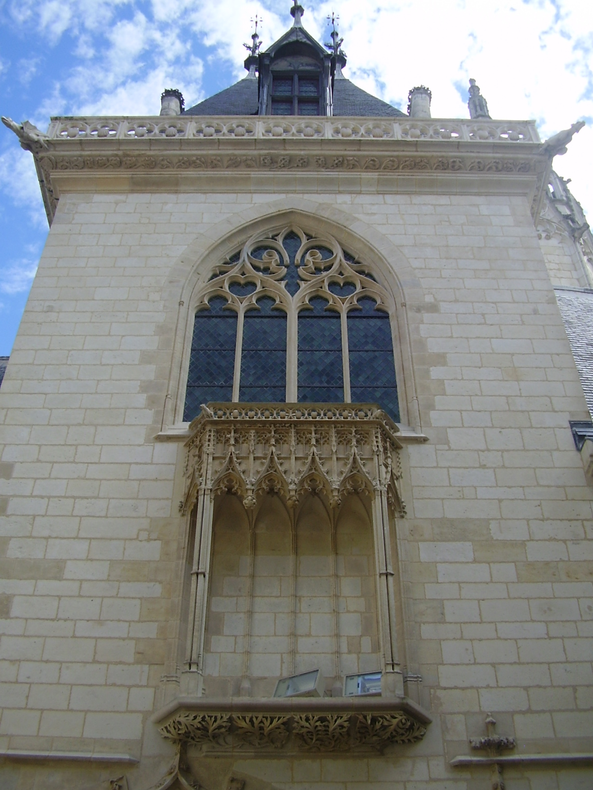 Entrance tower of Jacques Coeur Palace, from the courtyard (Bourges, France)